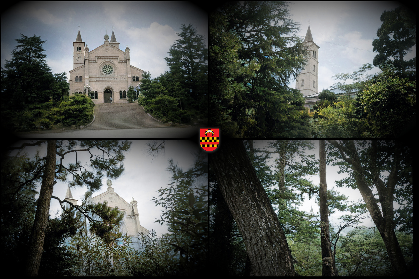 Old Yamaguchi Xavier Memorial Church